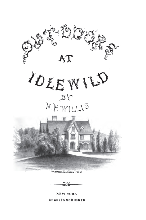 Title page for Out-doors at Idlewild by American writer Nathaniel Parker Willis. New York: Charles Scribner, 1855. "Idlewild" was the name of Willis's home near the Hudson River in New York.